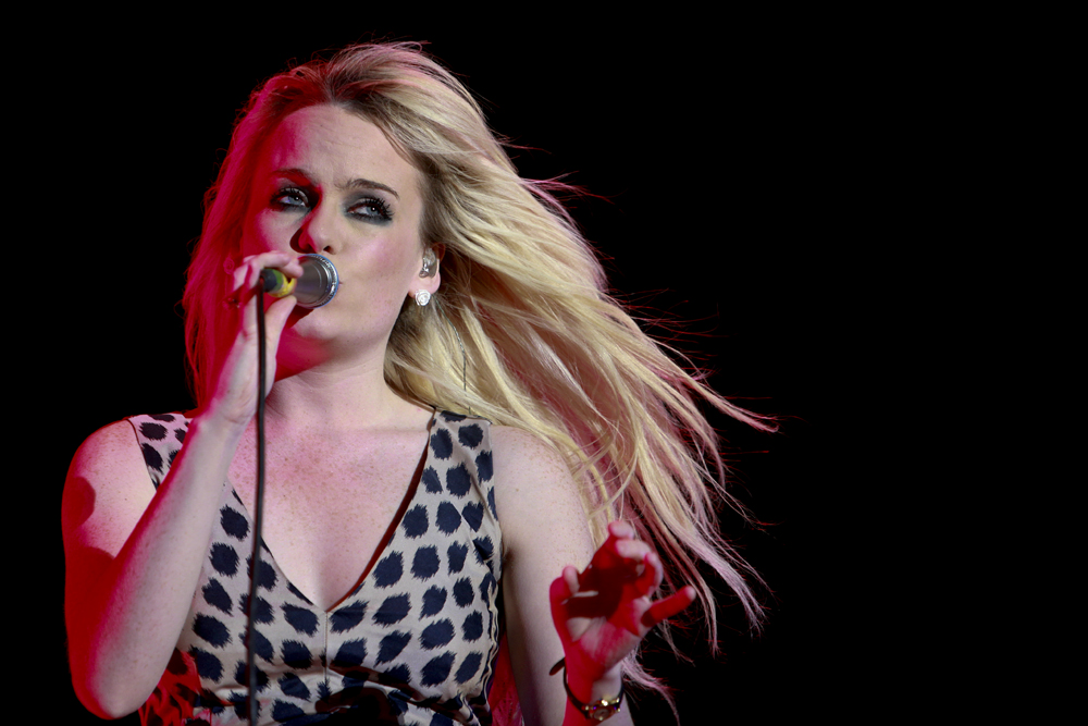 Welsh singer Duffy during her performance live at the Superbock Festival, at Estádio do Restelo, Belém, July 18th, in Lisbon.